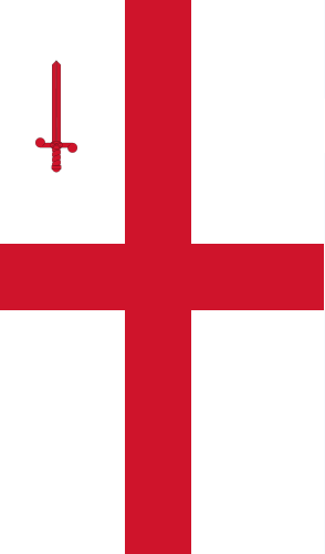 Flag of the City of London, as displayed when shown as banner (rotated 90 degrees). This is the flag of the administrative region called the "Square Mile", not all of London.